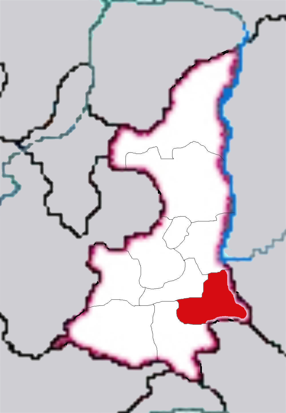 Maps of Shaanxi Province of China